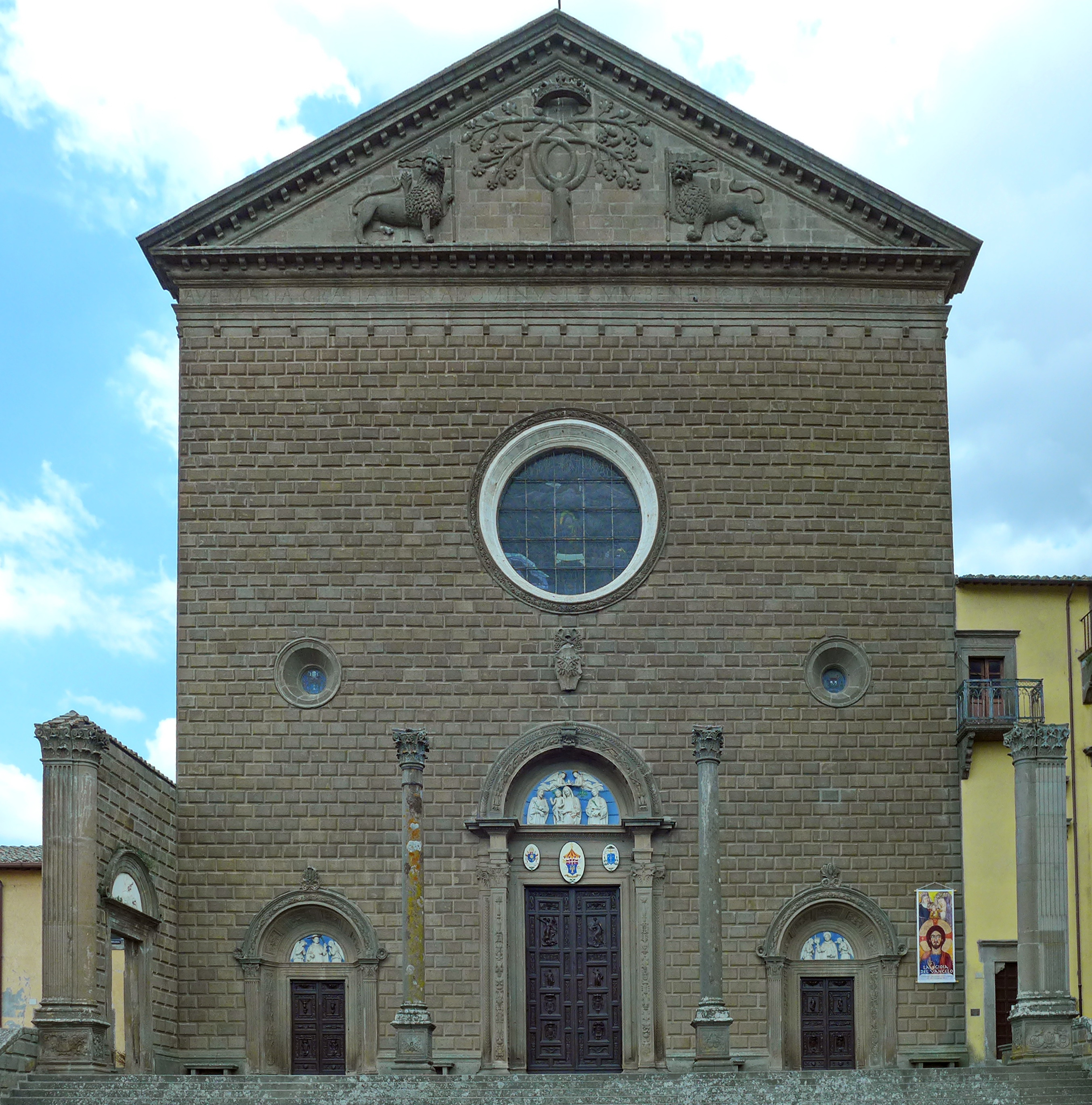 Santa Maria della Quercia (Viterbo), Facade